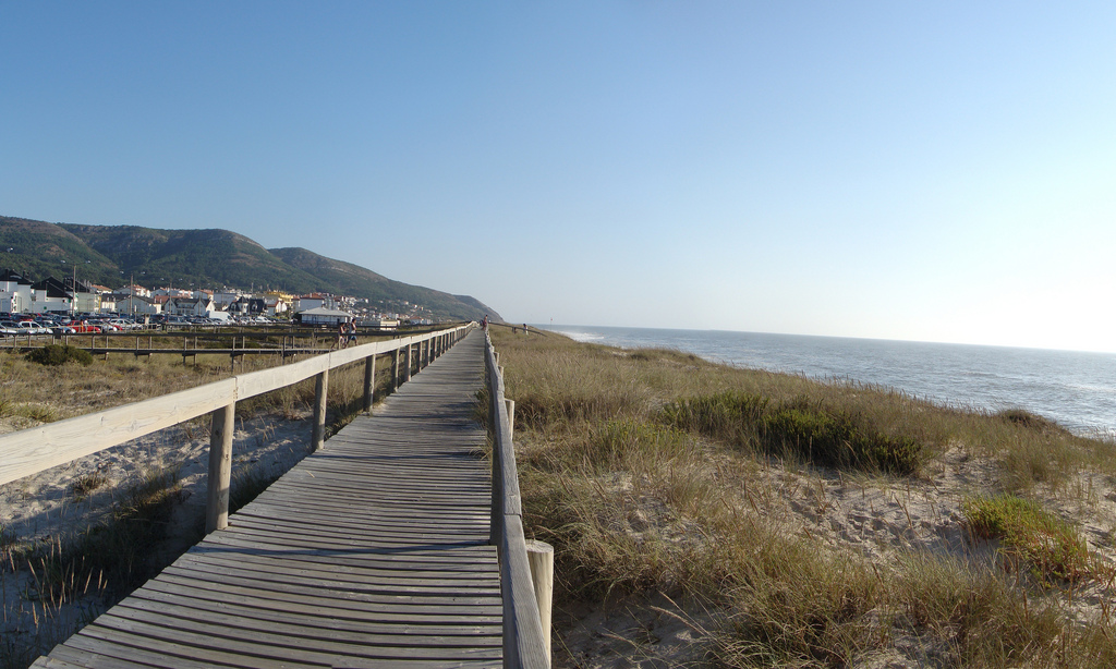 Praia de Quiaios, Figueira da Foz, Coimbra, Portugal.